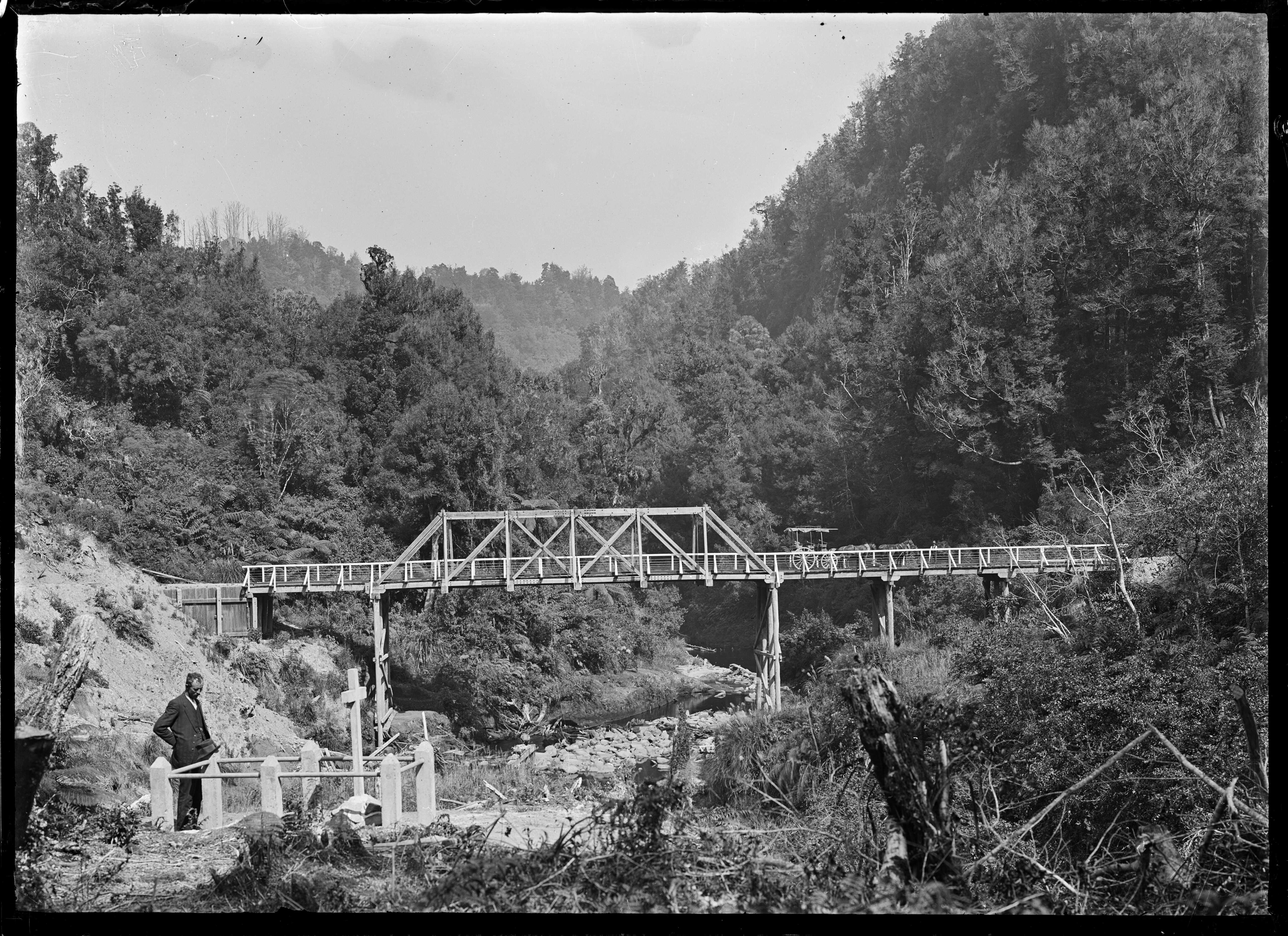 Tangarakau Gorge road, surrounded by native bush. A bridge crosses the river, and an unidentified man is standing by a grave beside the road. The grave is that of Joshua Morgan (1858-1893), who died while making a survey for building the road. Photographed by Albert Percy Godber between 1915 and 1916. Dated from other images in the Godber Album at PA1-o-195.